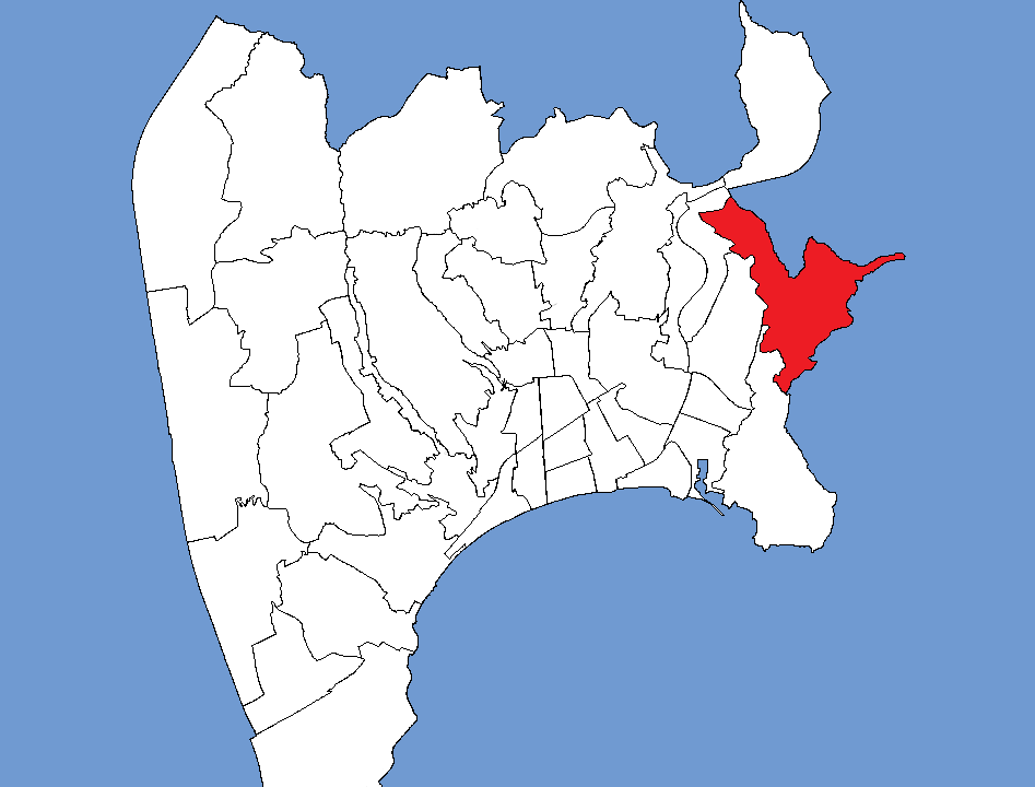 Location of the neighbourhood Vinaigrier in Nice